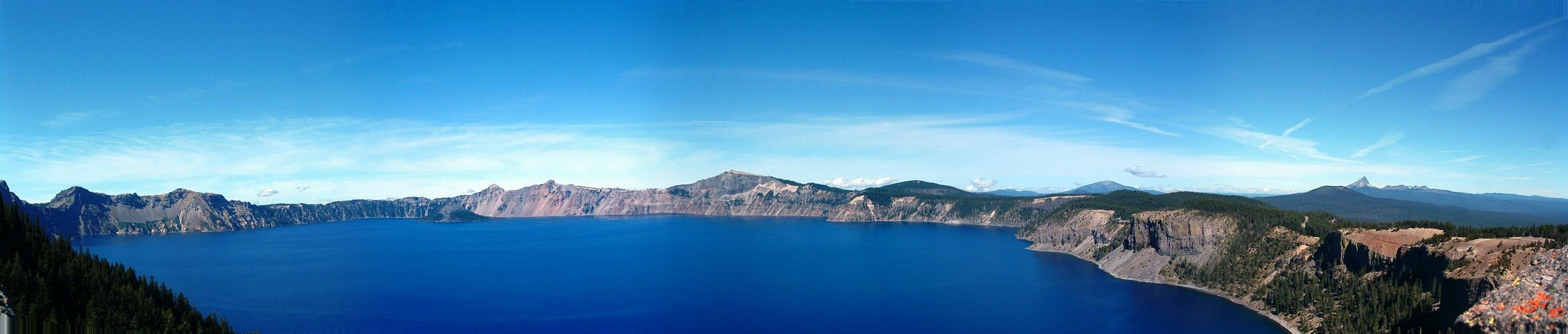 Crater Lake National Park, Oregon, US [1]. This picture was taken by Jyotirmaya \talk.